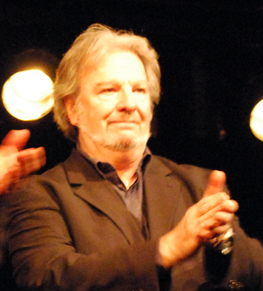 Pablo Ziegler, Treibhaus Innsbruck 2010, concert with Walter Castro and Quique Sinesi